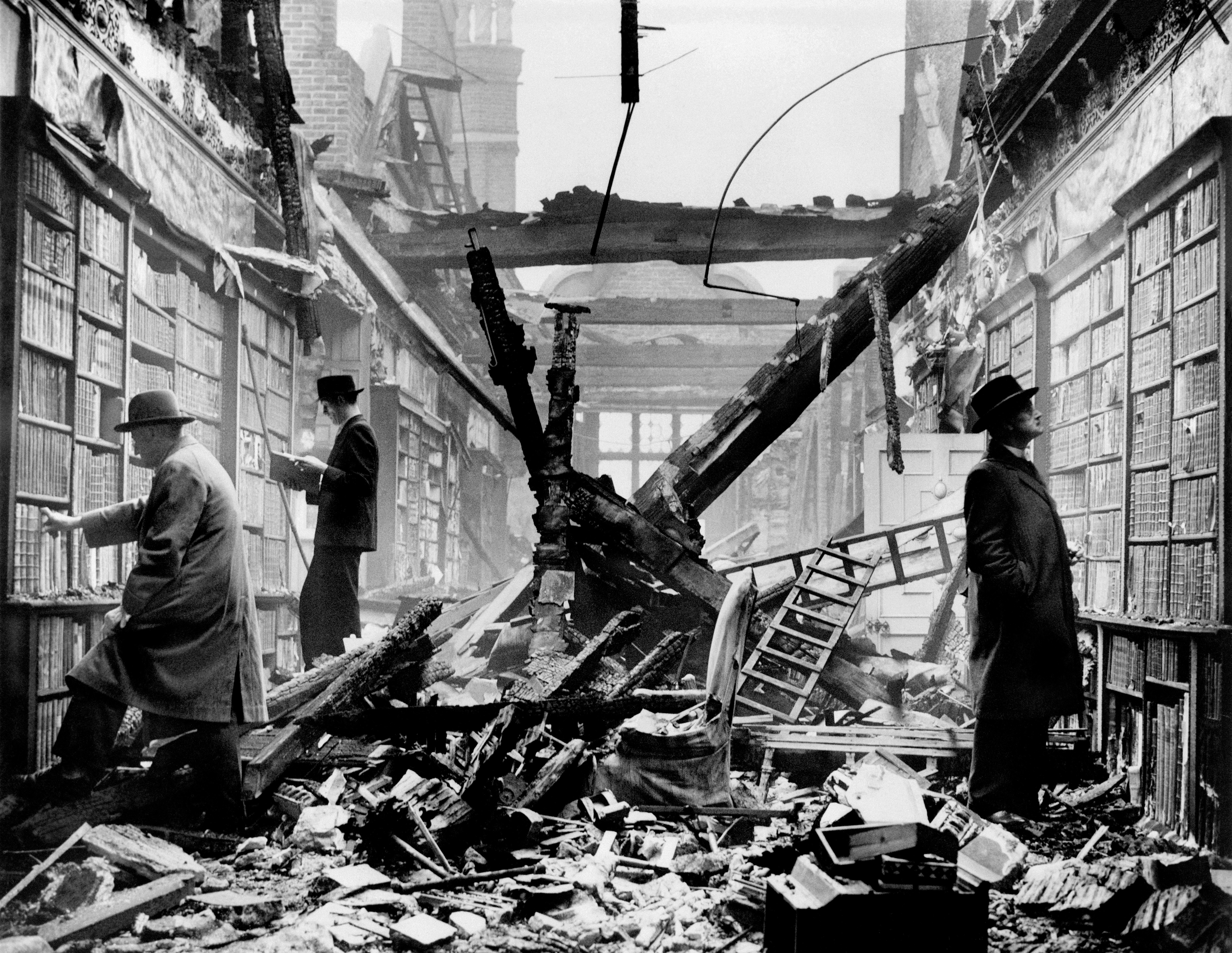 Original caption: "HOLLAND HOUSE BADLY BURNED. WS/57. Holland House, Lord Ilchester's historic 17th. Century house, has been damaged during the recent air raids on London. An oil bomb started a fire on one of the towers and a 'Molotoff breadbasket' and a shower of incendiaries fell on the building. Firemen saved the east wing from complete destruction, but the rest of the house is a shell. Holland House, just off Kensington High-street, was London's great Whig salon in the 18th century and the home of Charles James Fox, and also earlier, of Joseph Addison, founder of the Spectator. Photo shows - The famous library containing a number of valuable and historical books was completely wrecked. FOX. OCT. 23rd. 40. [7]"[1] The spectacle of the three men shown inspecting books in the library was likely staged for propaganda purposes.[2]